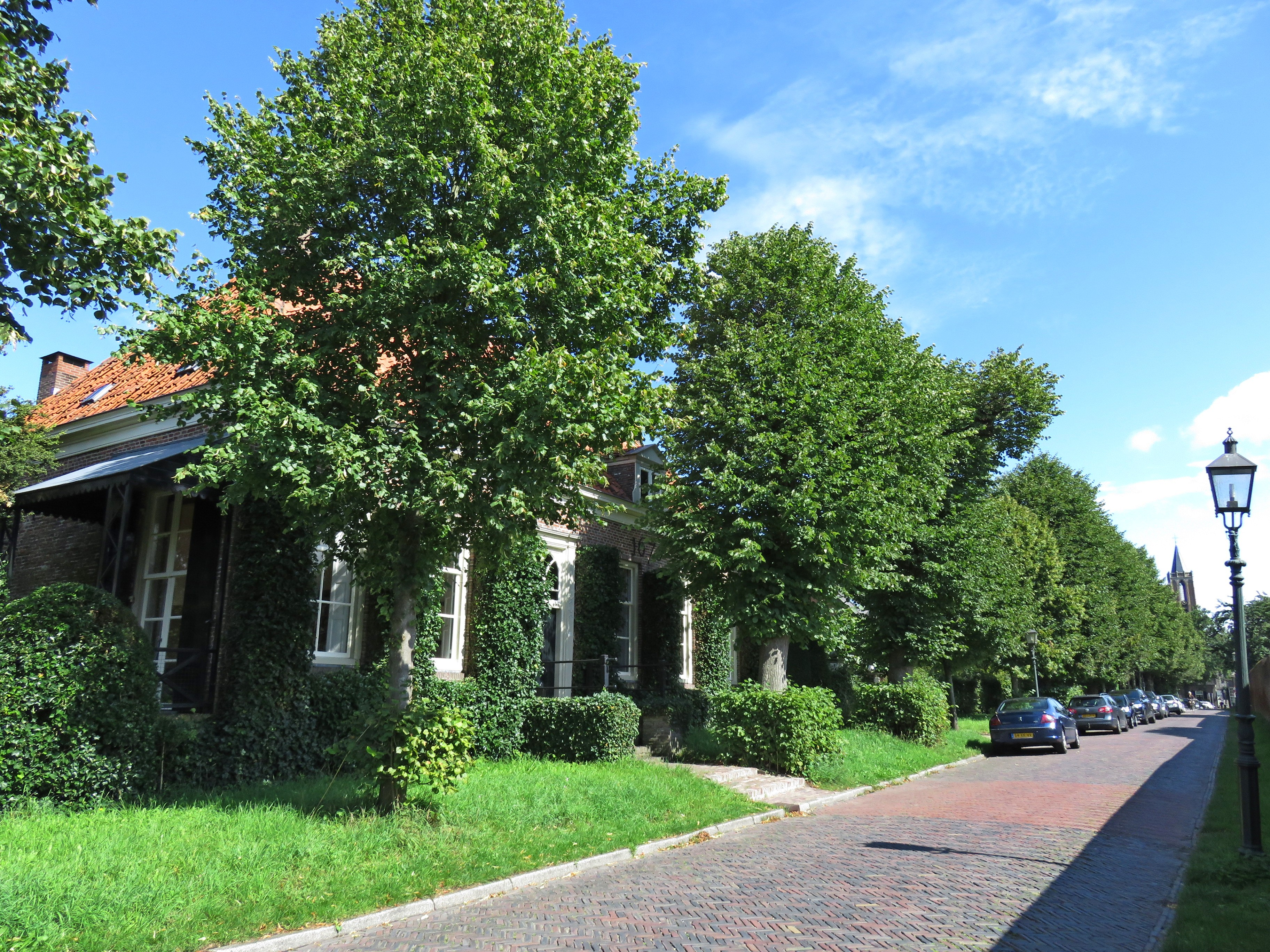 Drostestreet in Amerongen (NL), with on the left the Drostehouse